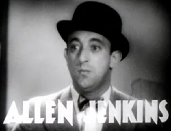 Cropped screenshot of Allen Jenkins from the trailer for the film Havana Widows